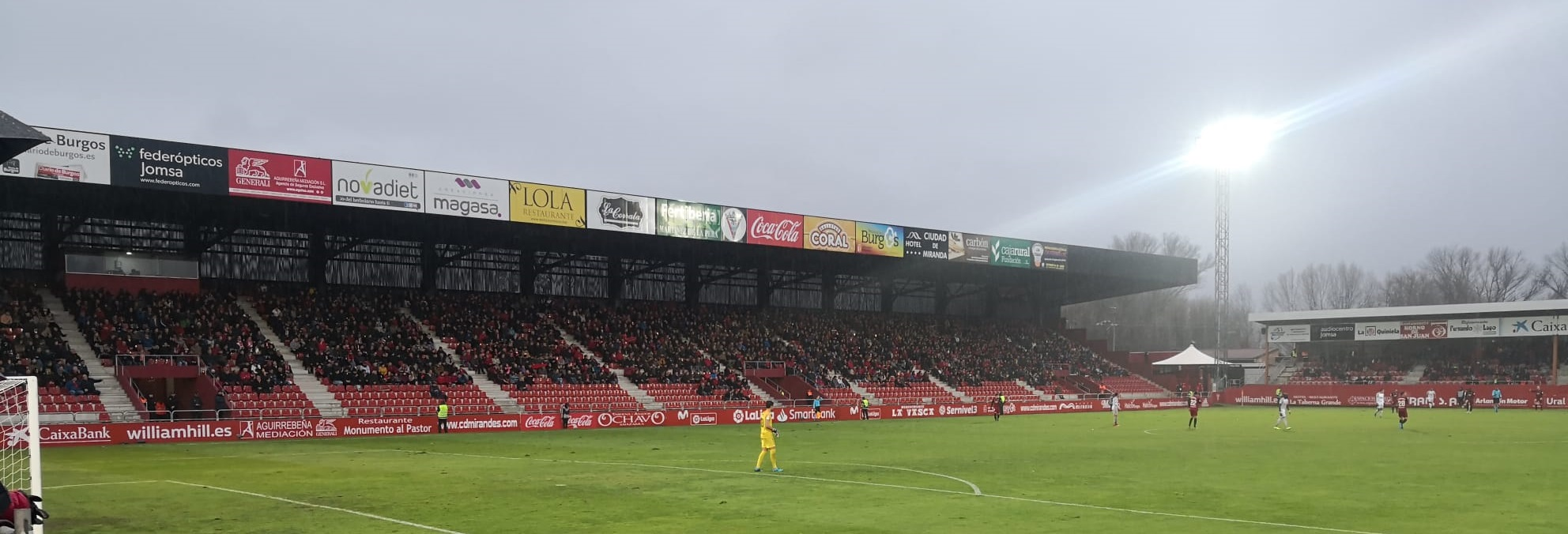 Main stand of the Estadio Municipal de Anduva, located in Miranda de Ebro, Burgos, Spain, during the Segunda División match between locals CD Mirandés and Real Sporting de Gijón.